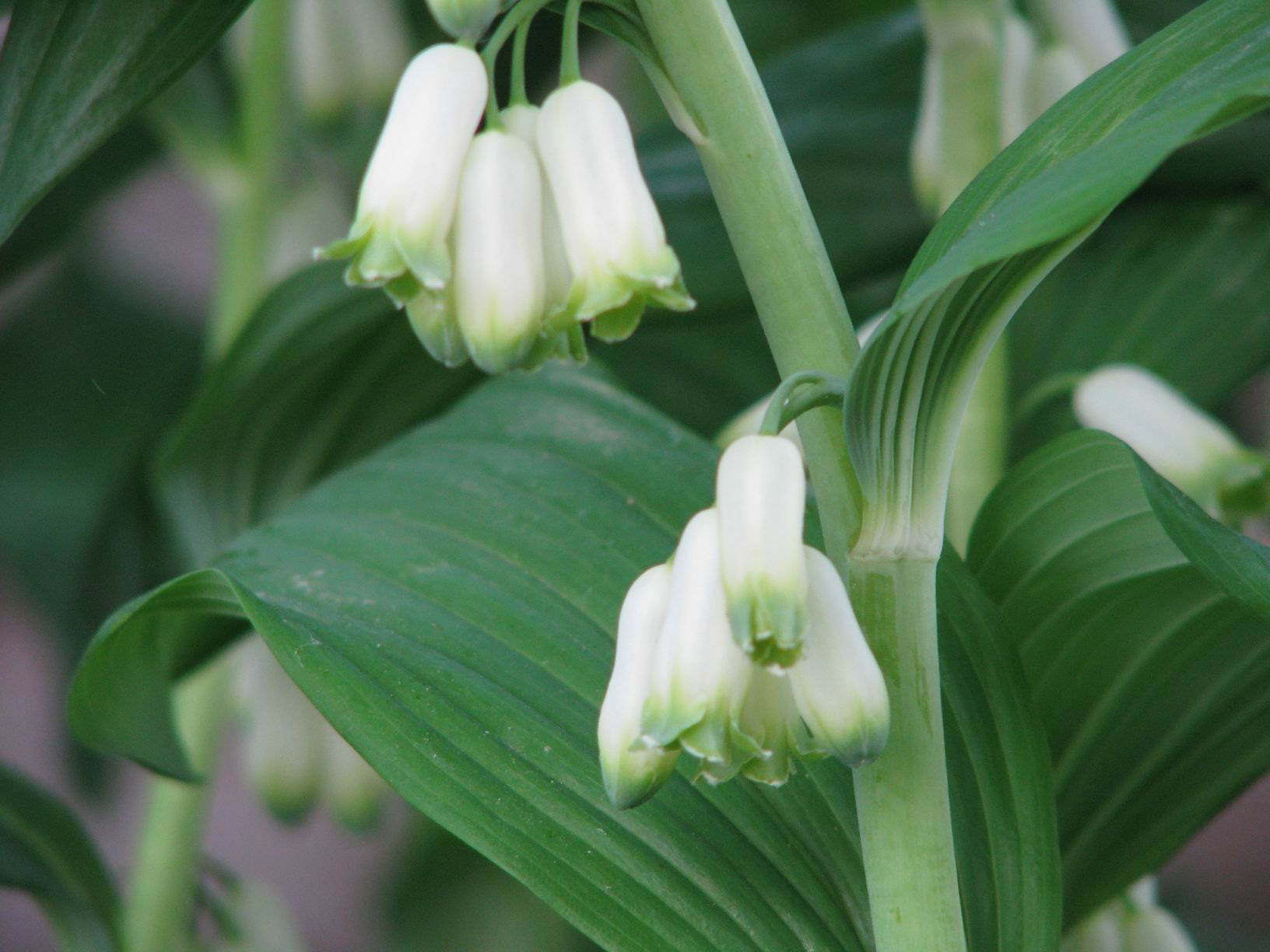 Polygonatum multiflorum. Savinsky District of Ivanovo Oblast, Russia